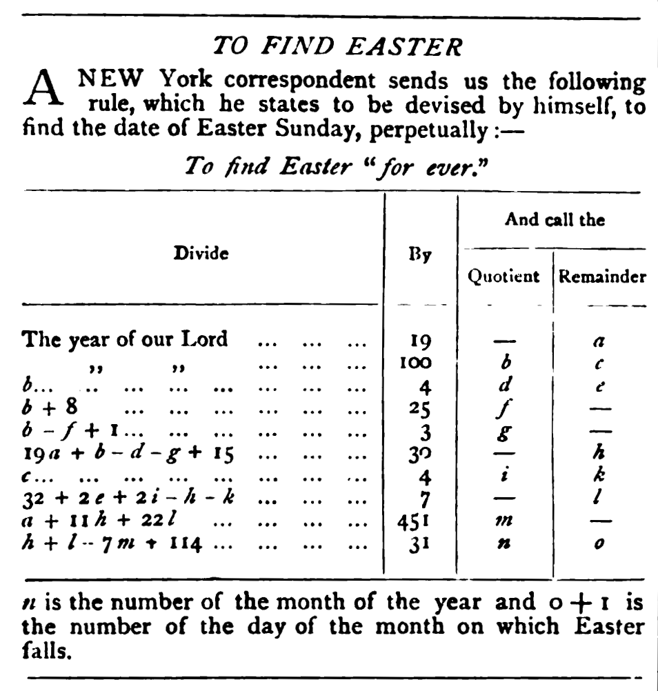 Nature, 1876 (13), 338, S. 487